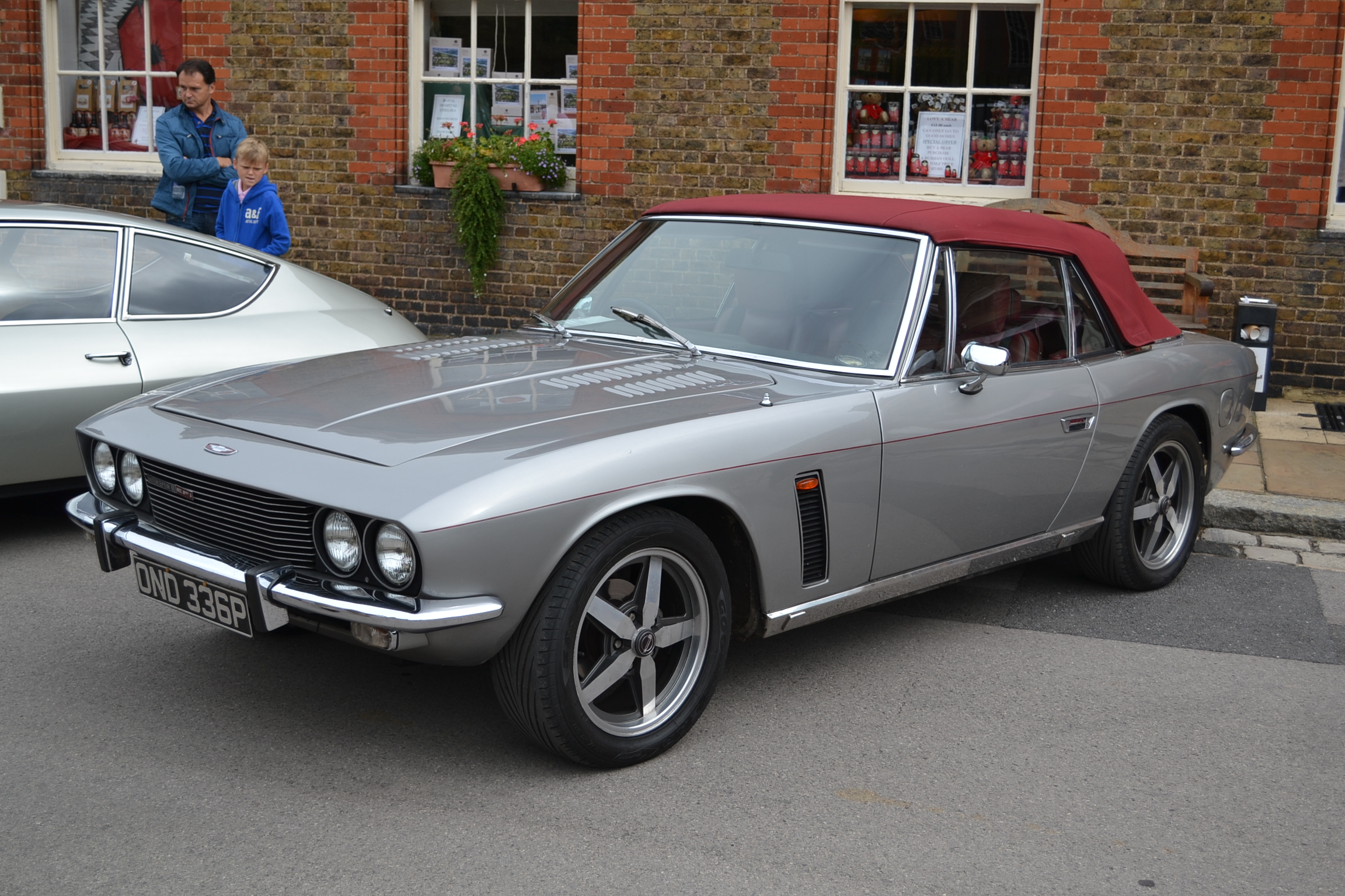 Chelsea Auto Legends 2012